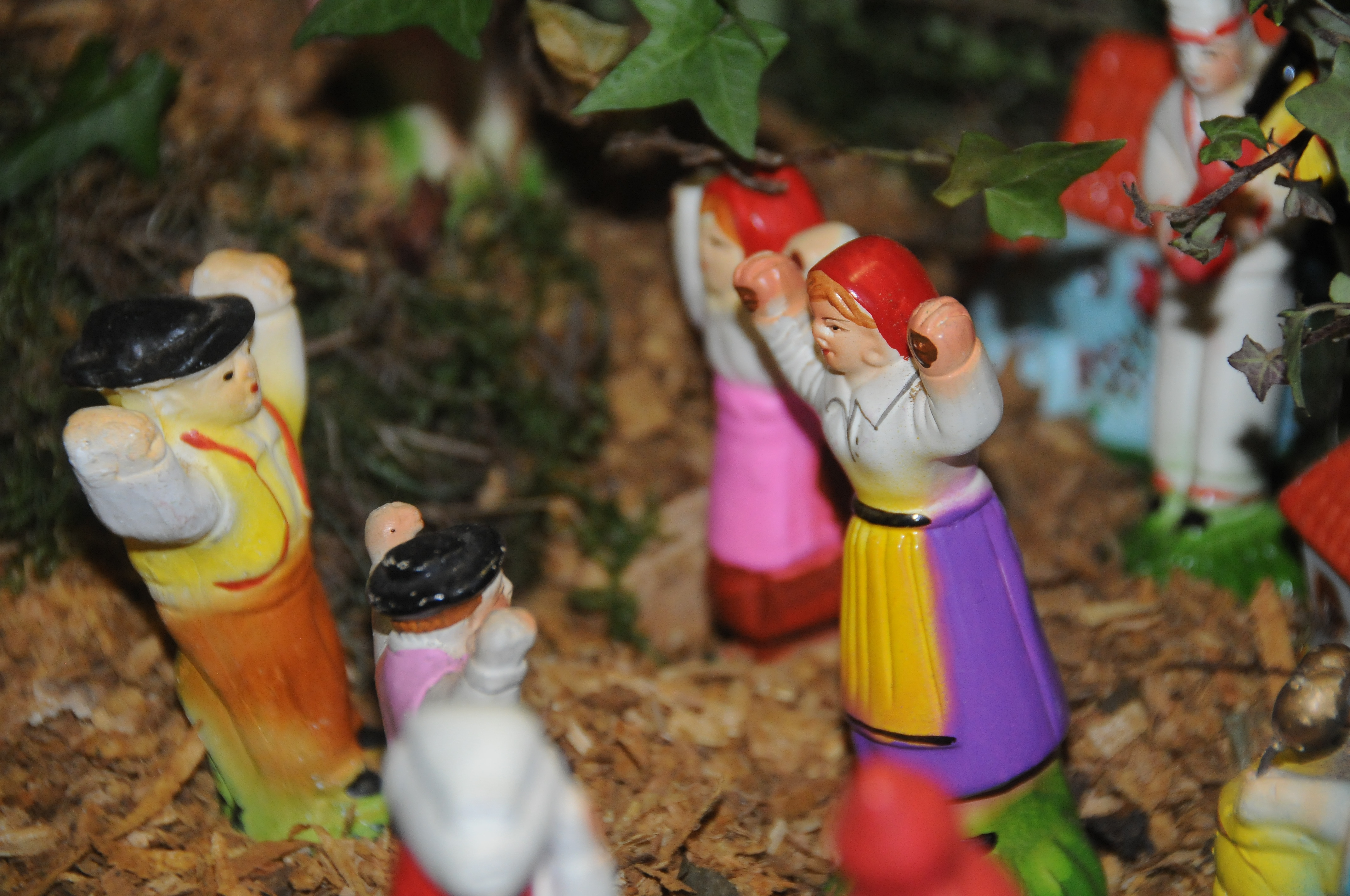 Traditional Nativity scene in Portugal